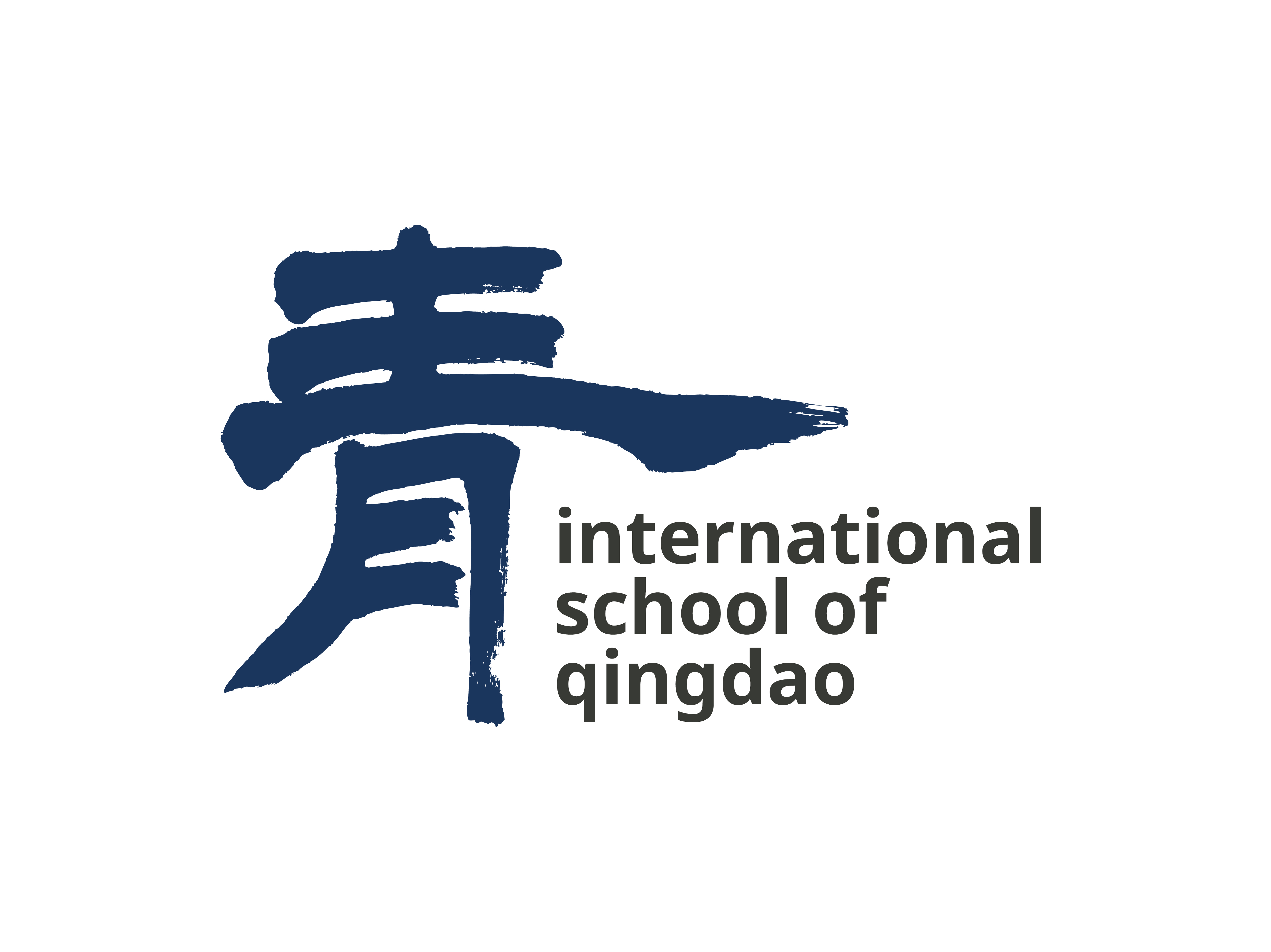 ISQ logo